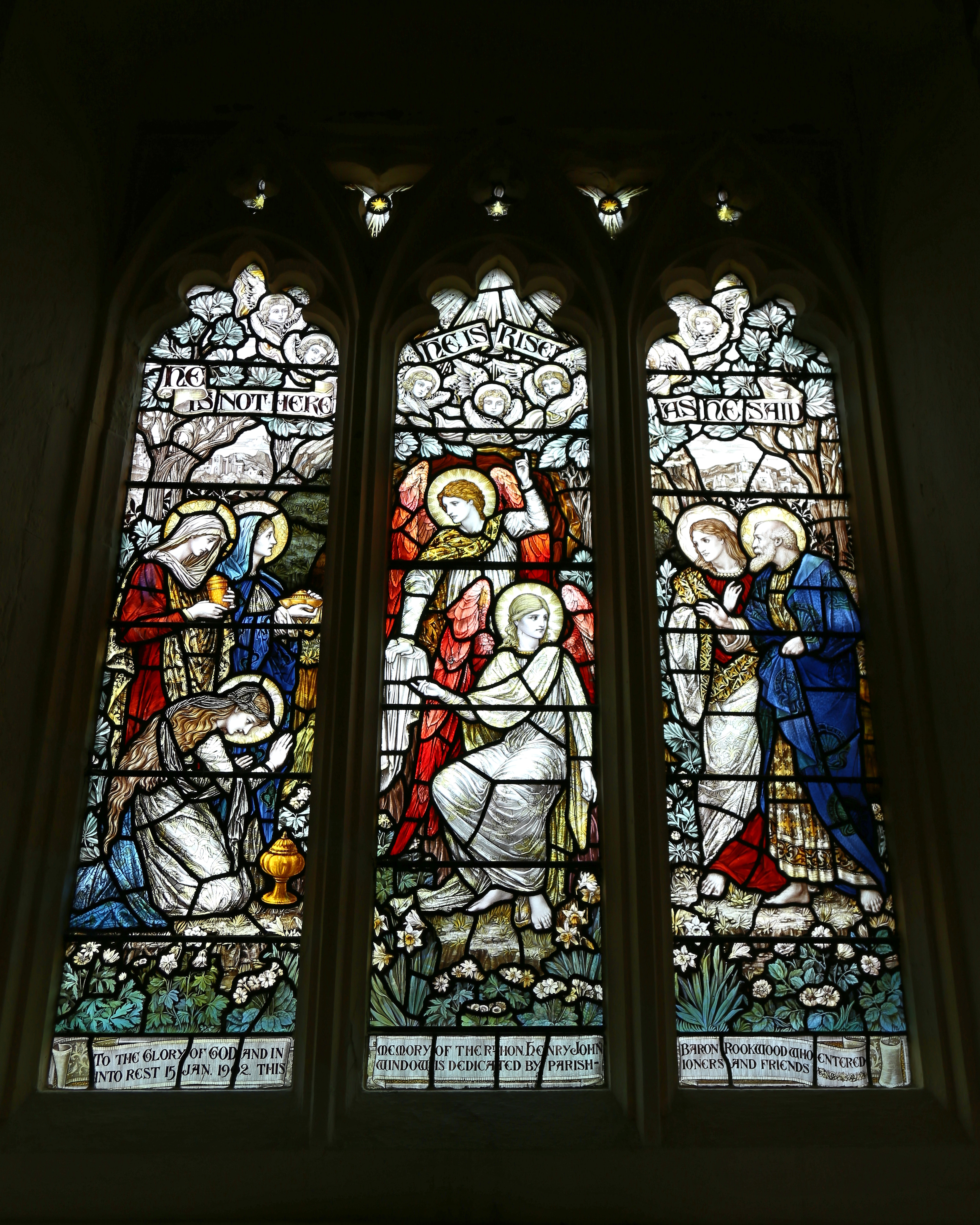 A stained glass memorial window to Henry Selwin-Ibbetson, 1st Baron Rookwood in the Grade: II* listed early 13th-century St Mary the Virgin parish church of Matching, Essex, England.Software: file lens-corrected and optimized with DxO OpticsPro 10 Elite and Viewpoint 2, and further optimized with Adobe Photoshop CS2.